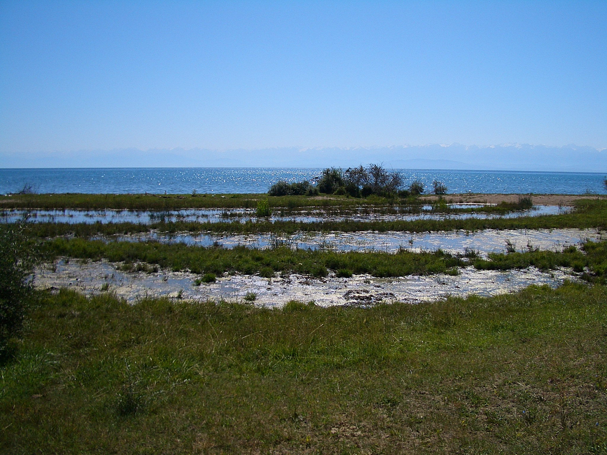 A wetland along the shore of Issyk Kul, on the Tamchy Bay between Tamchy and Kosh Köl, Kyrgyzstan.